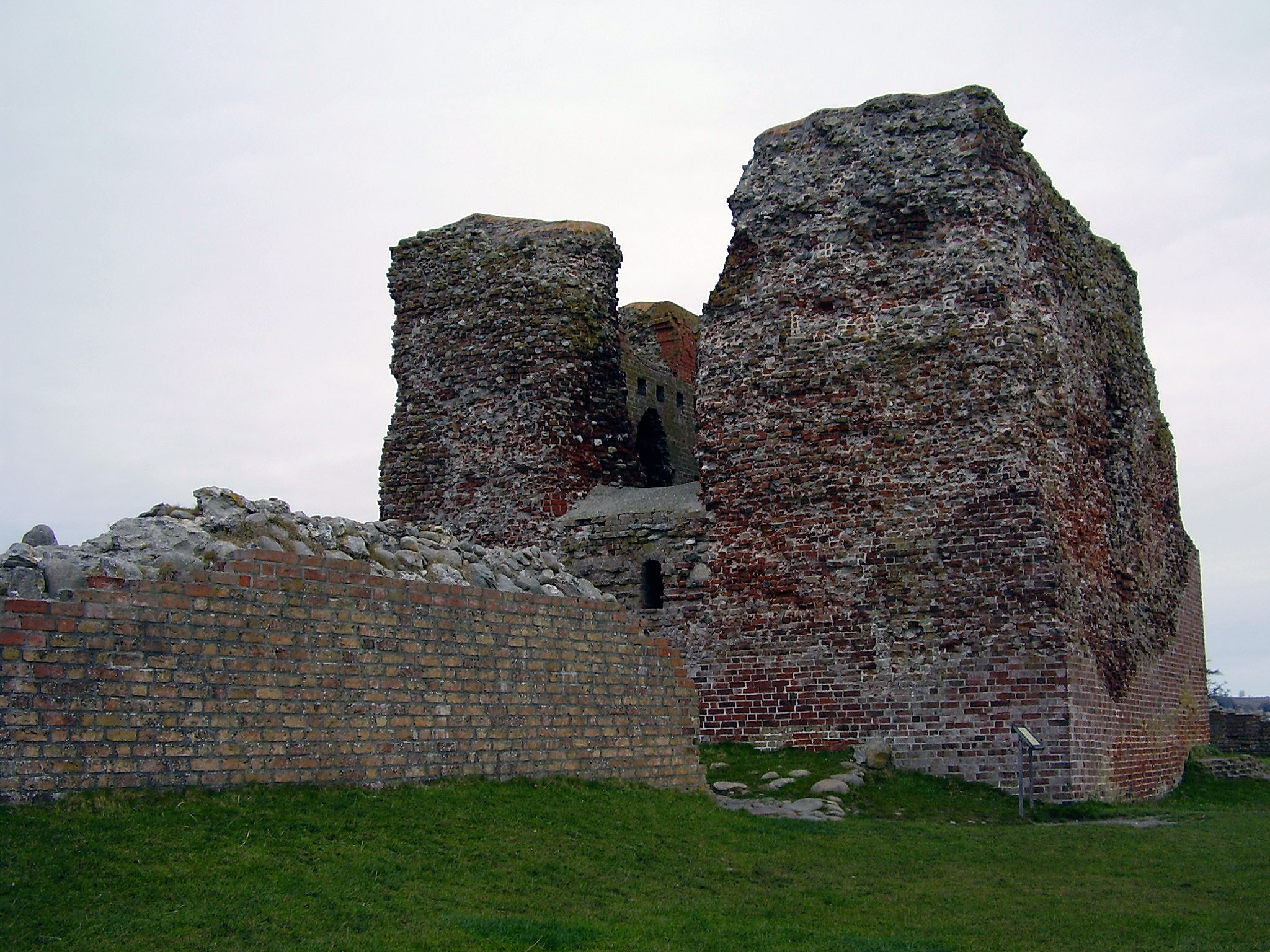 Remains of fortifications at Kalø, Denmark.